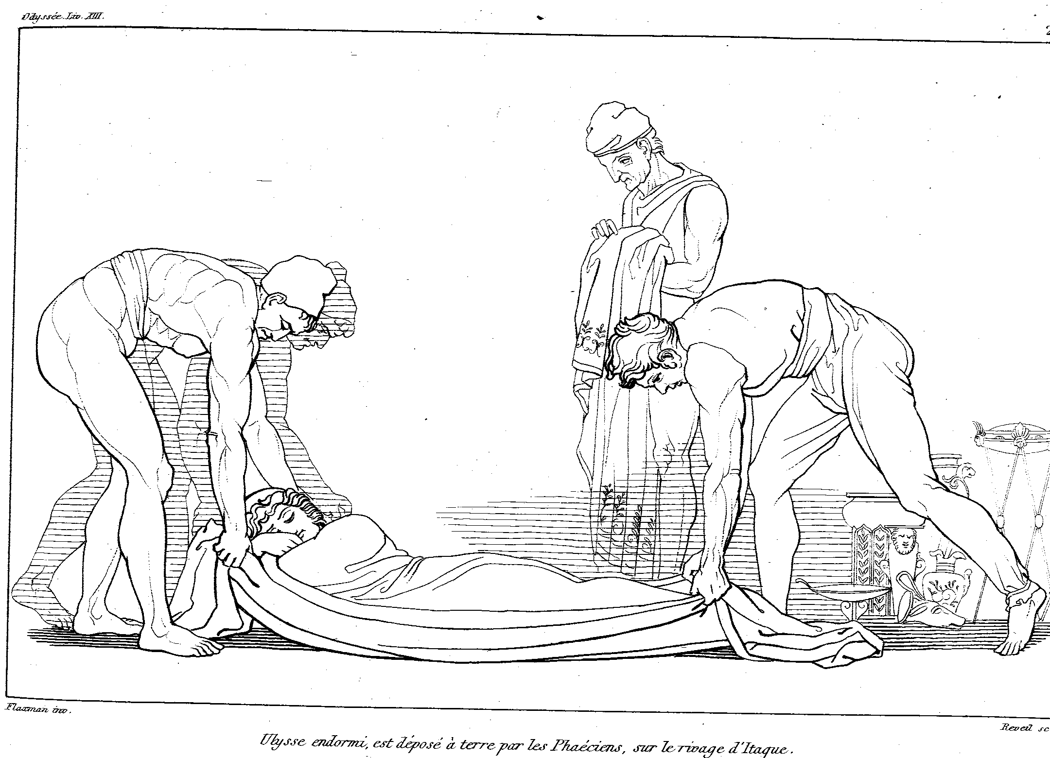 Illustrations of Odyssey